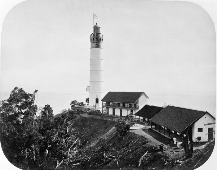 The lighthouse on Pulau Bras (Bras Island) in Aceh. 1877